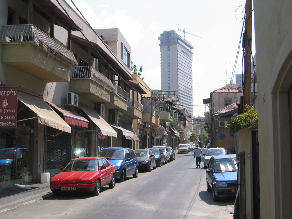 Shabazi Street, Tel Aviv